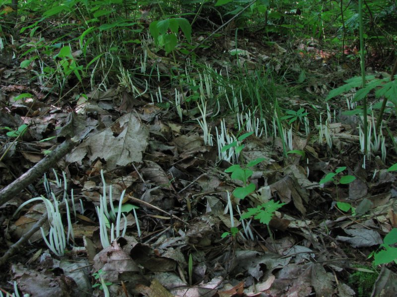 Fruit bodies of the coral fungus Clavaria fragilis (synonym: Clavaria vermicularis). Specimens photographed in Wildcat Hollow, Wayne National Forest, Ohio, USA.